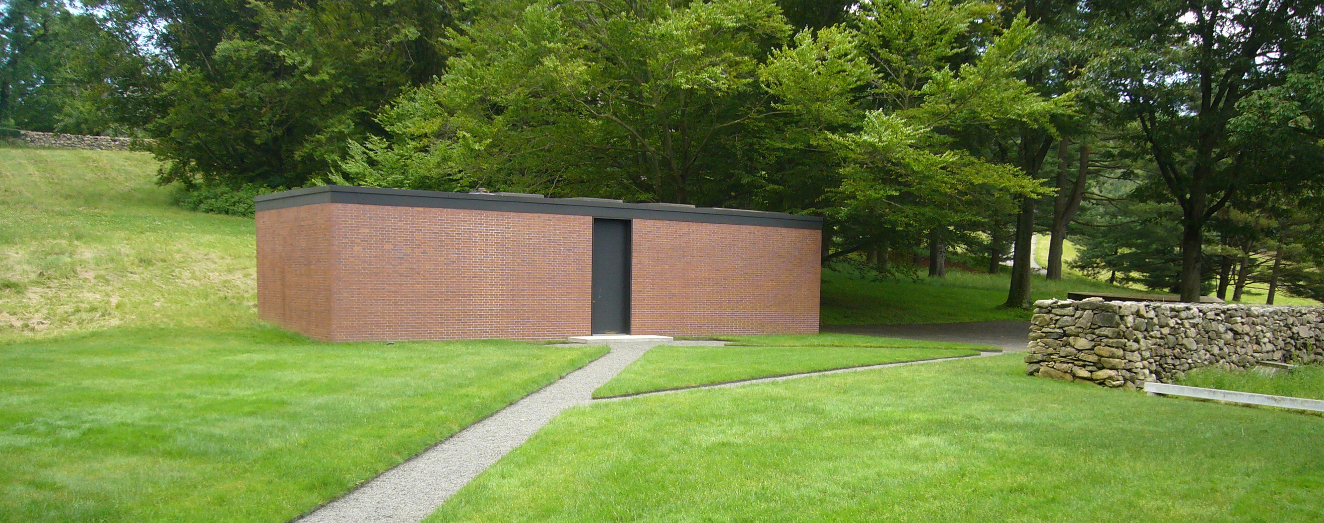 Guest House (exterior), Philip Johnson Estate (Glass House), New Canaan, CT (USA).